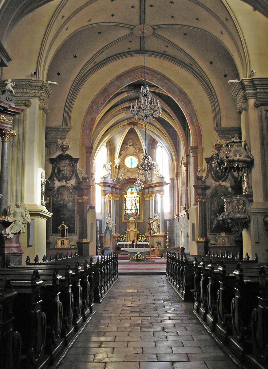 Franciscan church - interior Bratislava, Slovakia